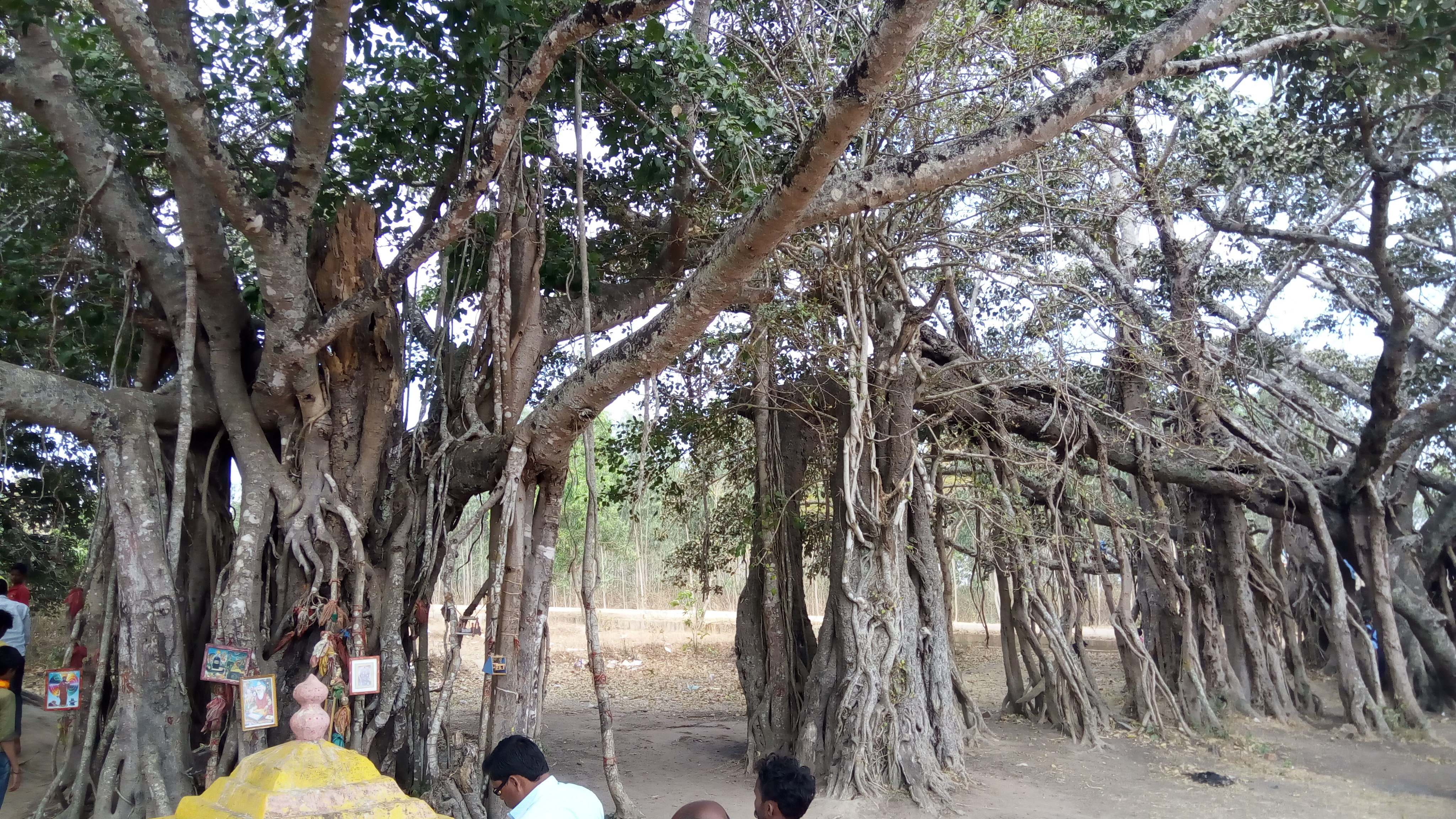 Place where Sangolli Rayanna was hanged by the British army.